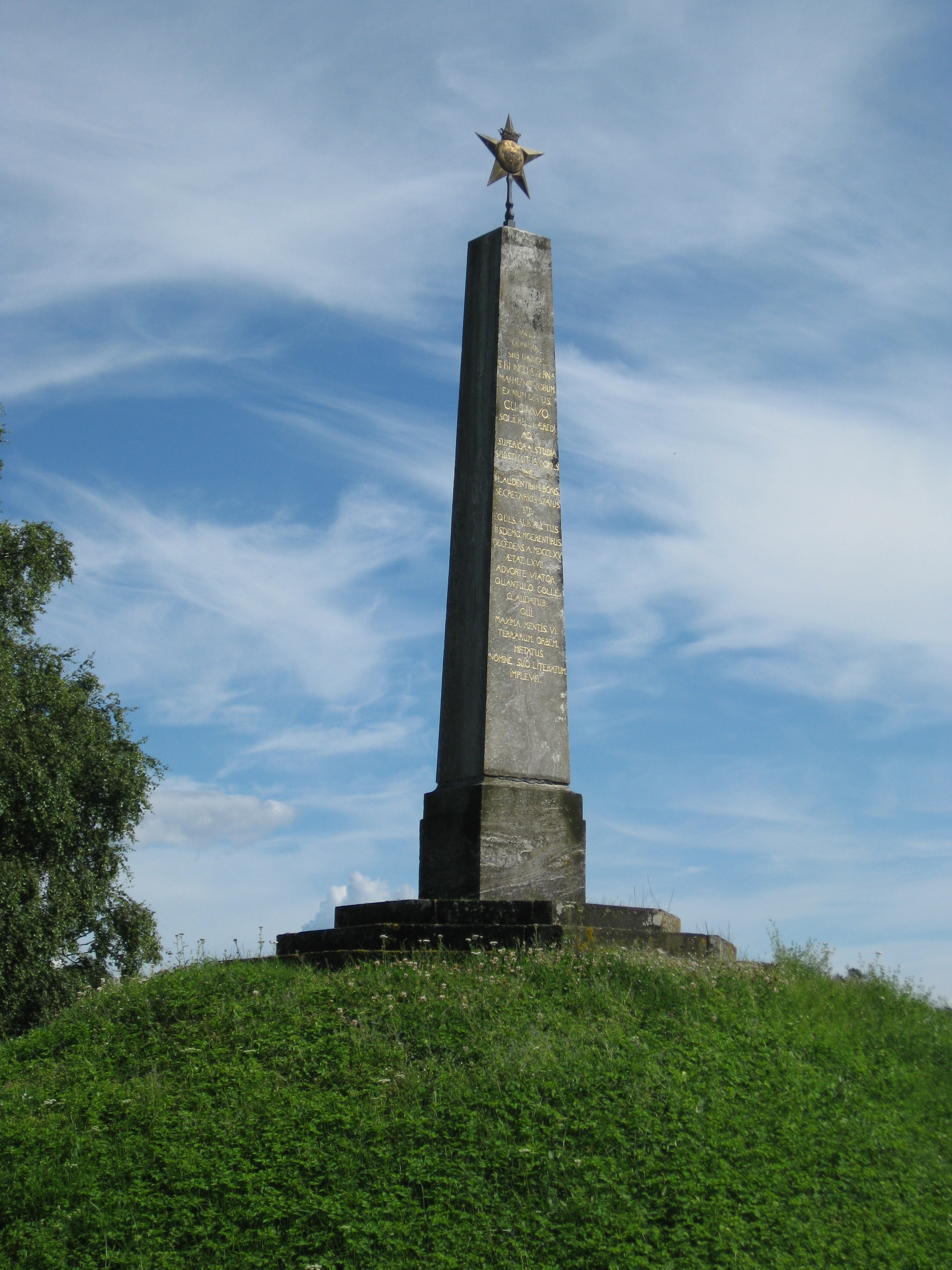 Picture of Samuel Klingenstiernas and Olof von Dalins memorial at Lovö church